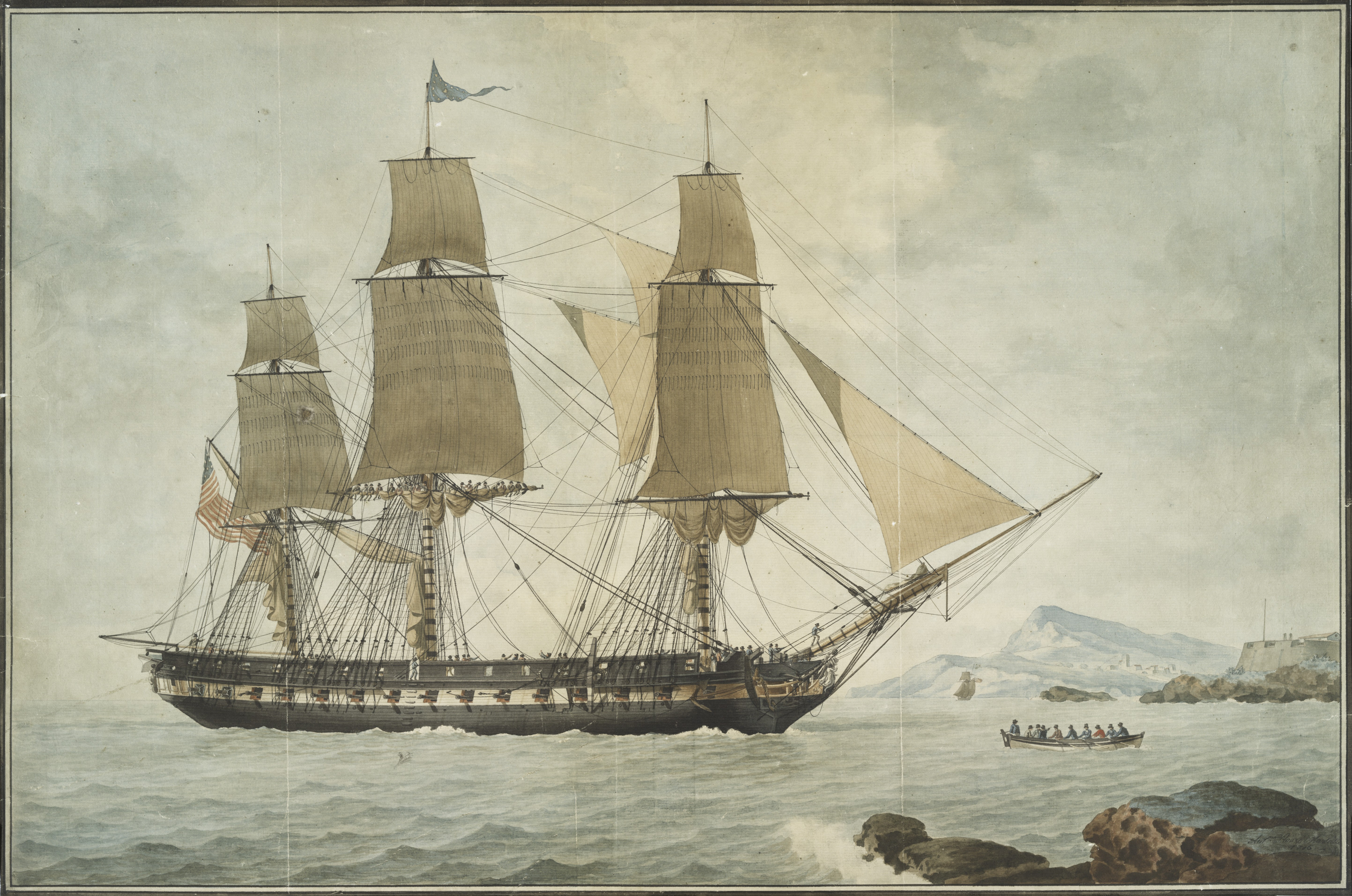 Stokes 1805-E-42 Deák 250